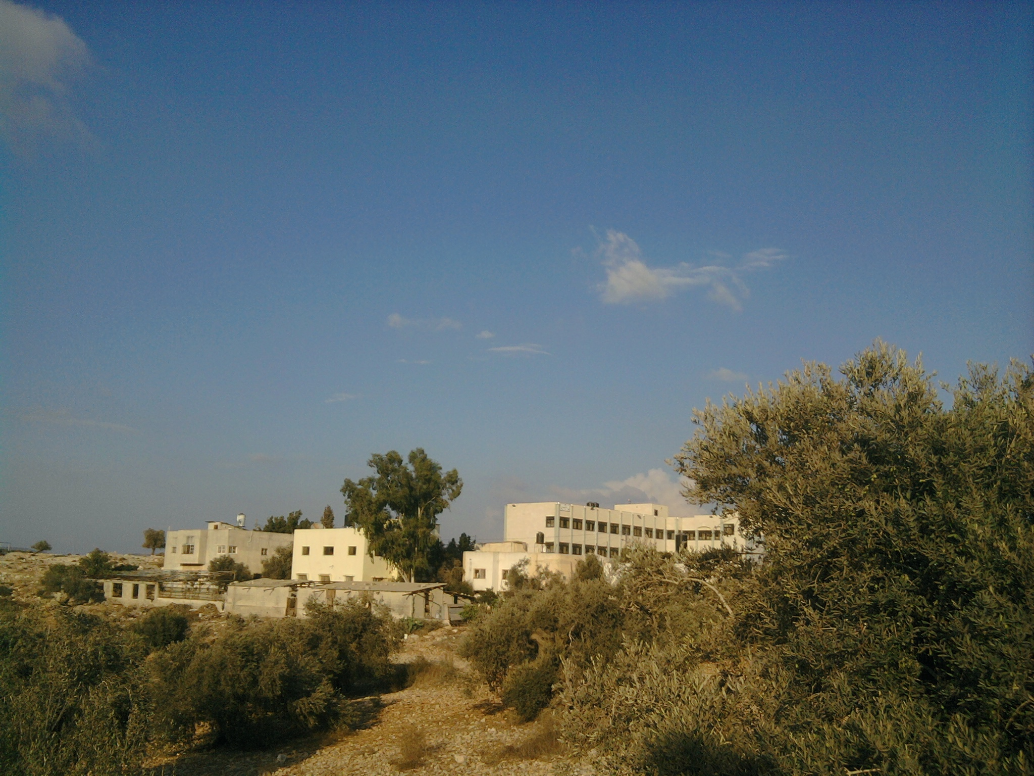 مدرسة الذكور